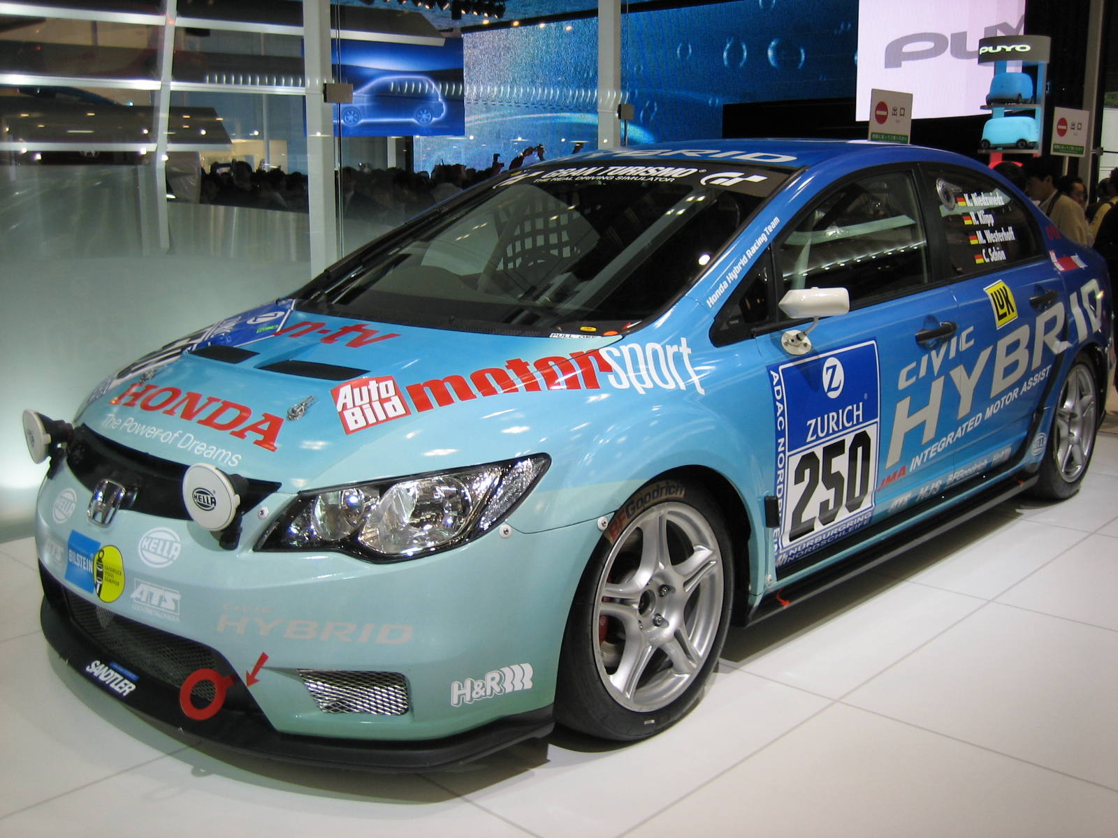 Honda Civic Hybrid in Tokyo motor show 2007